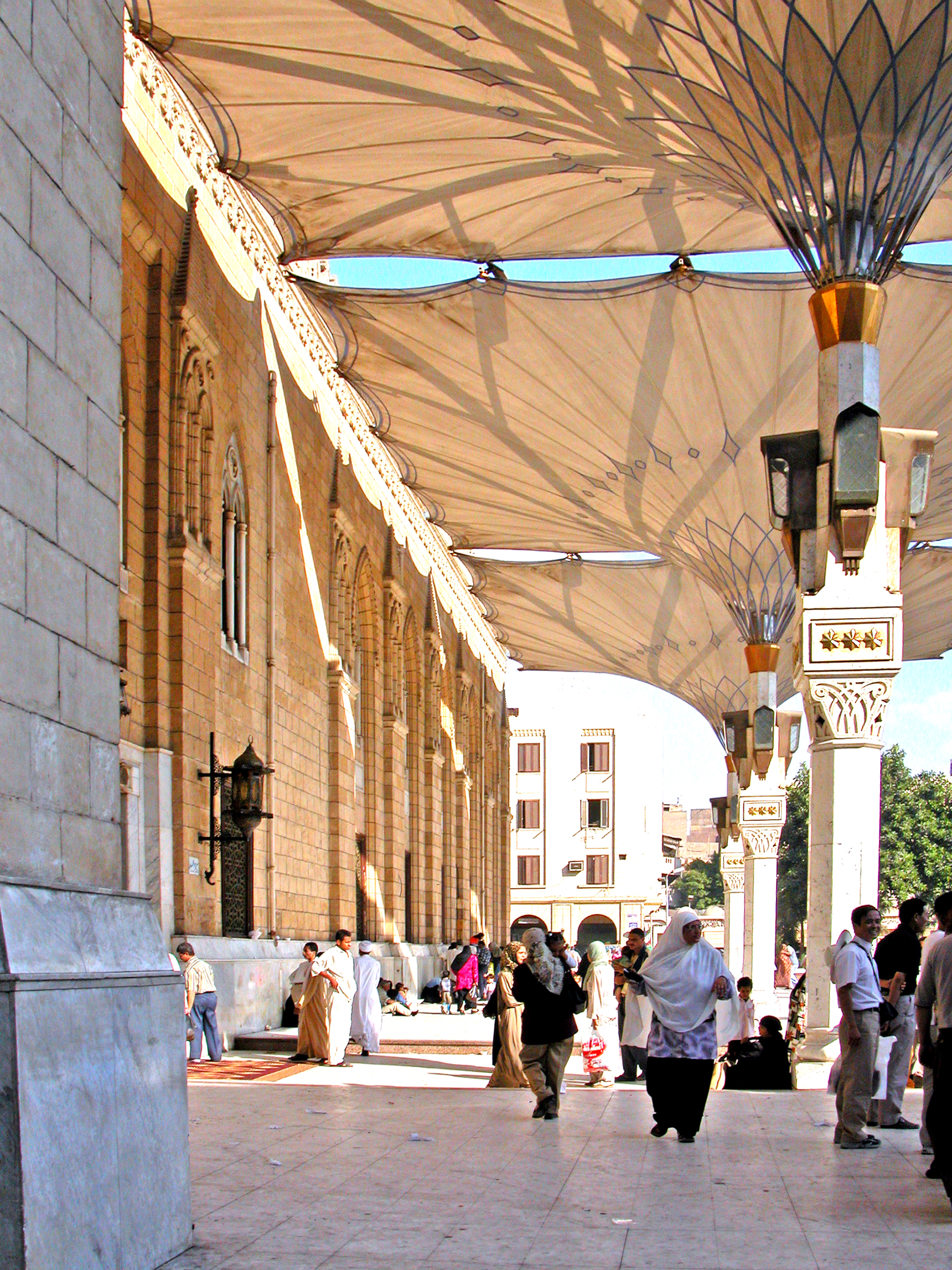 Saida al Hussein Mosque which is near the entrance to the Khan el-Khalili, Cairo, Egypt